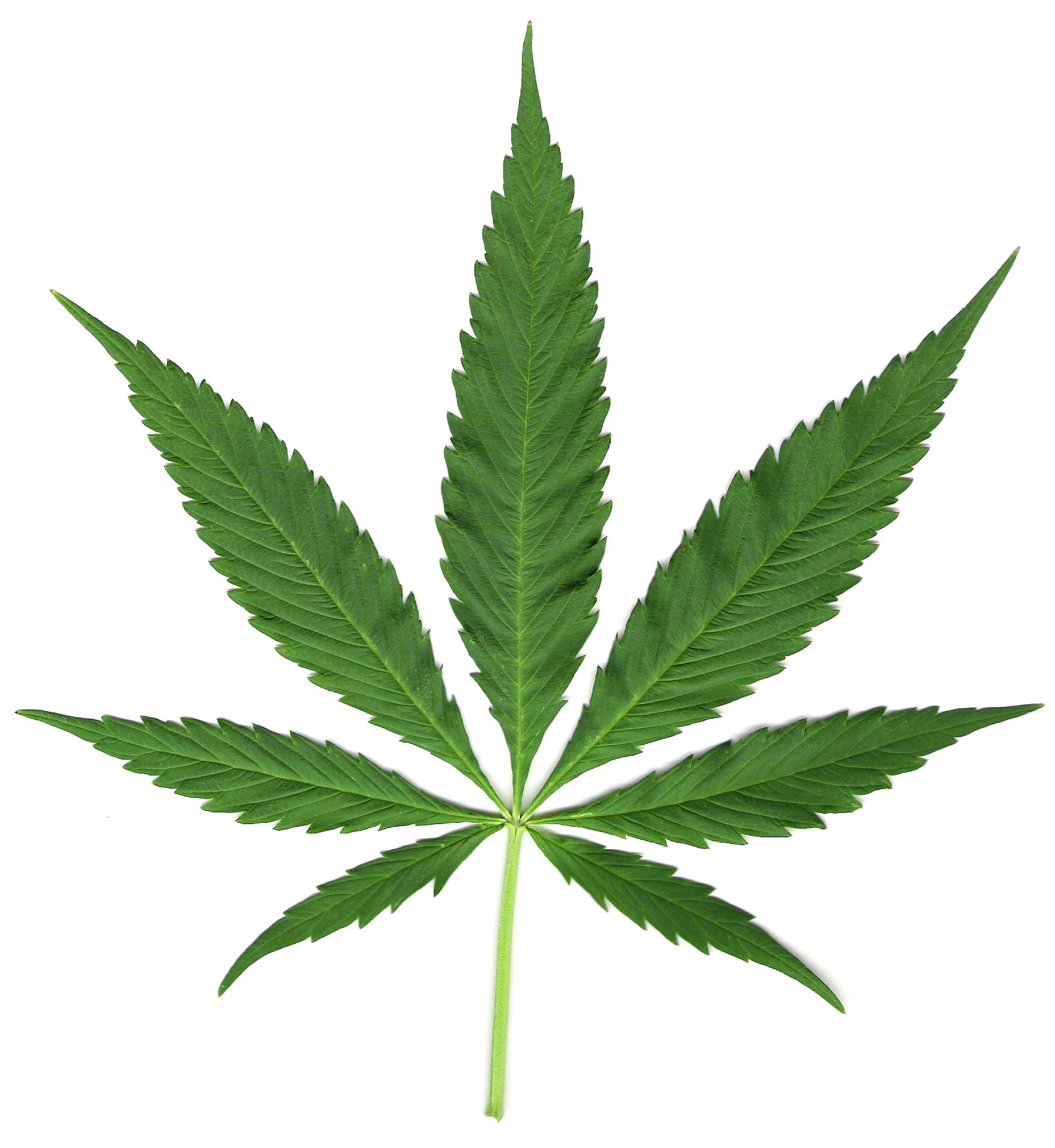 Cannabis Leaf